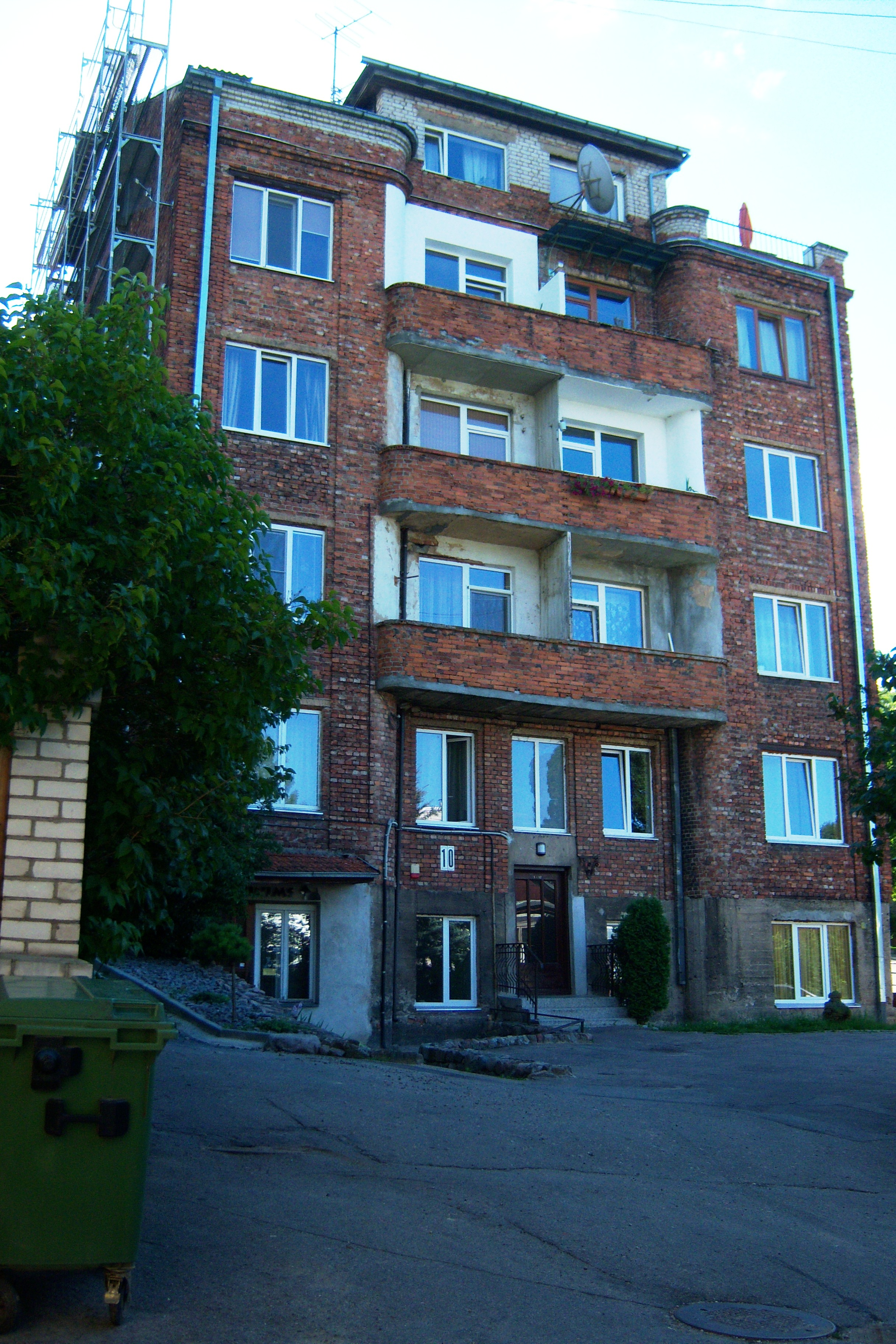 Building, Totorių street 10, Kaunas, Lithuania